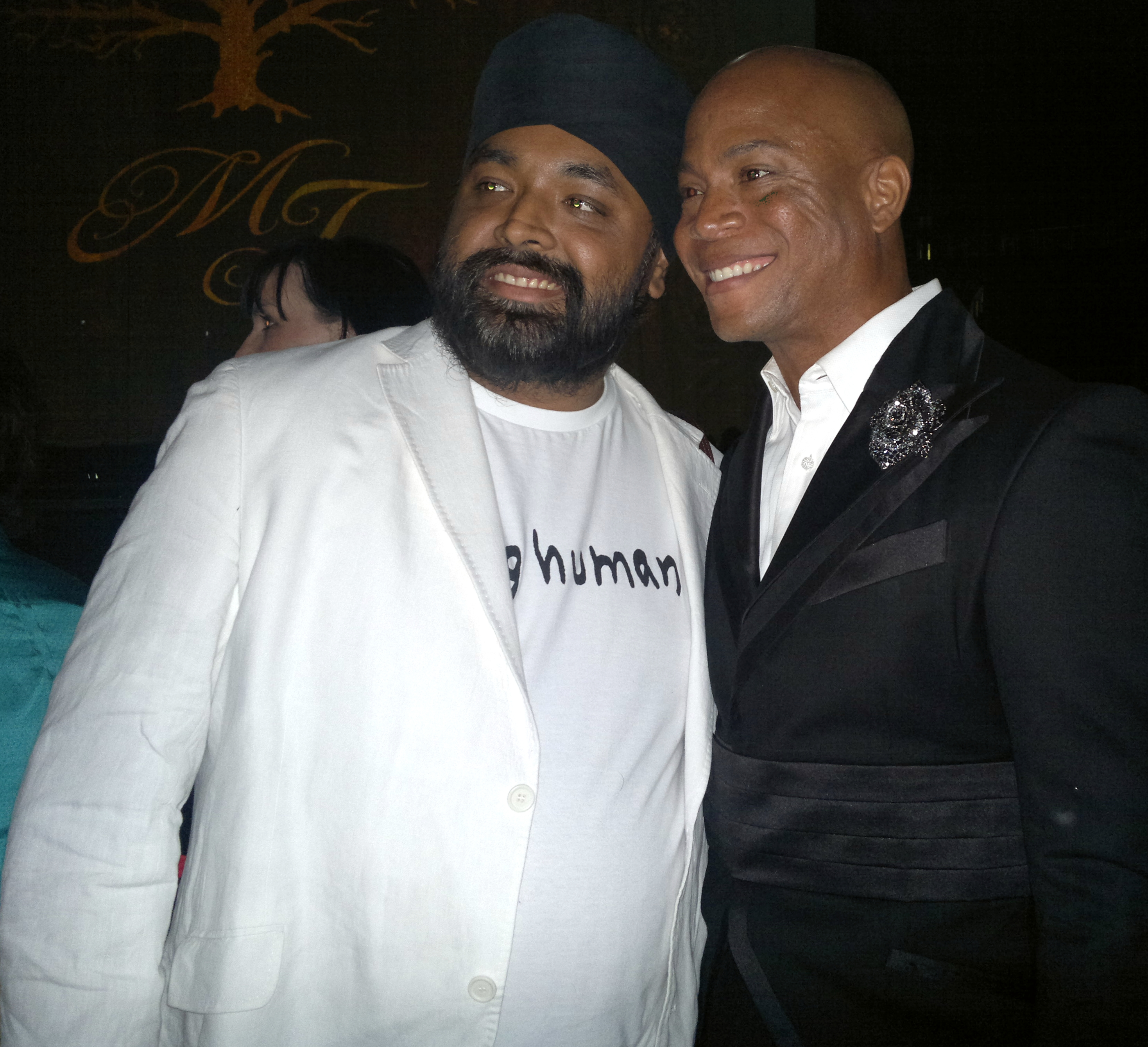 Madhu Singh of Signature (left) and Travis Payne at the Cirque De Soleil Immortla tour.